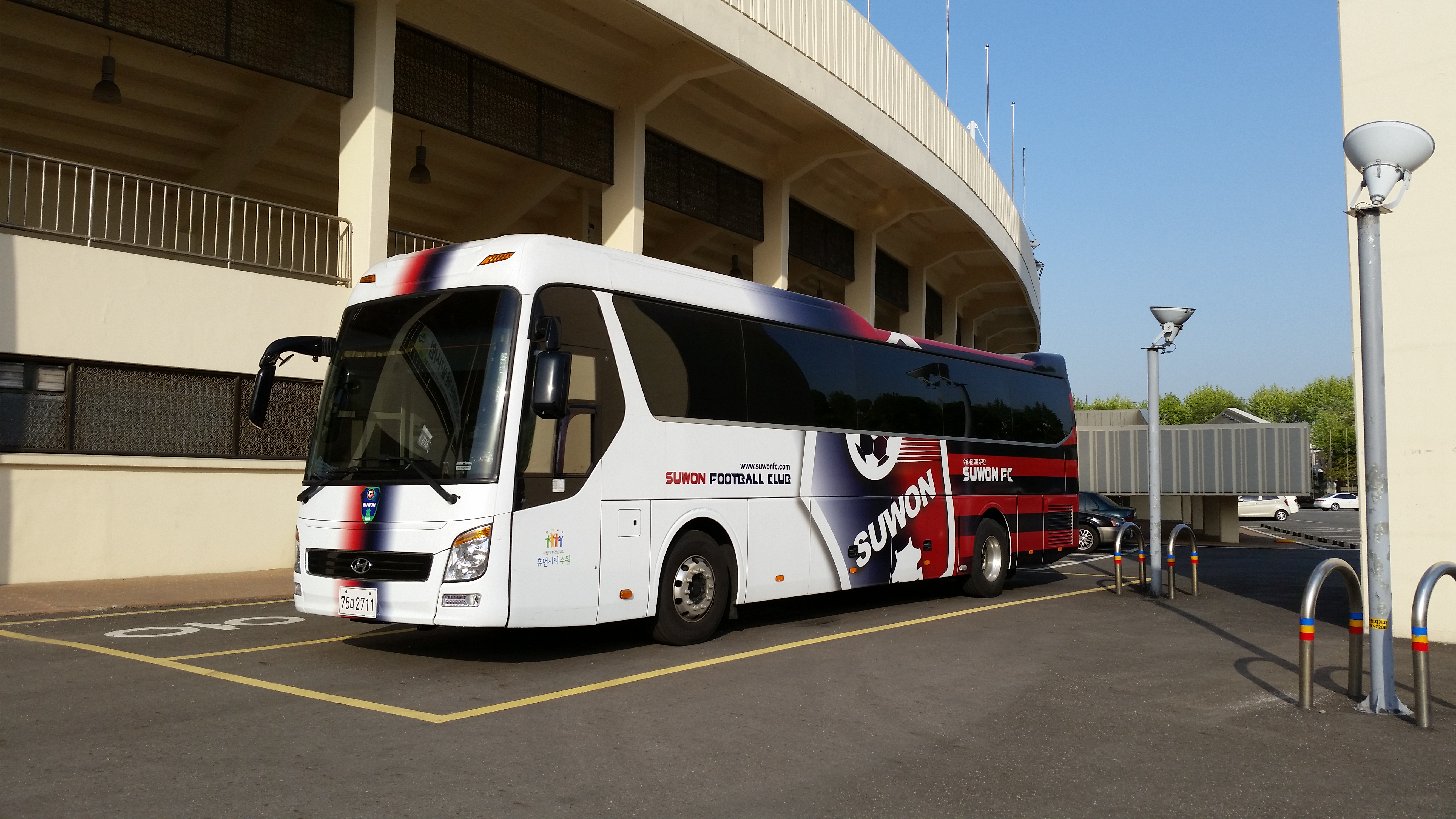 in Suwon Sports Complex